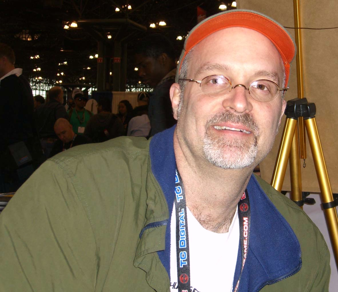 Comic book creator Aaron Lopresti at the New York Comic Convention in Manhattan, April 20, 2008.Photo by Luigi Novi. This photo may be used, modified and published for any purpose, only if a easily visible credit to the photographer is placed near the photo in each instance in which it is used. (See licensing information below.) Publication of this photo without this proper attribution constitutes copyright infringement. For more information on my photos, you can contact me here.